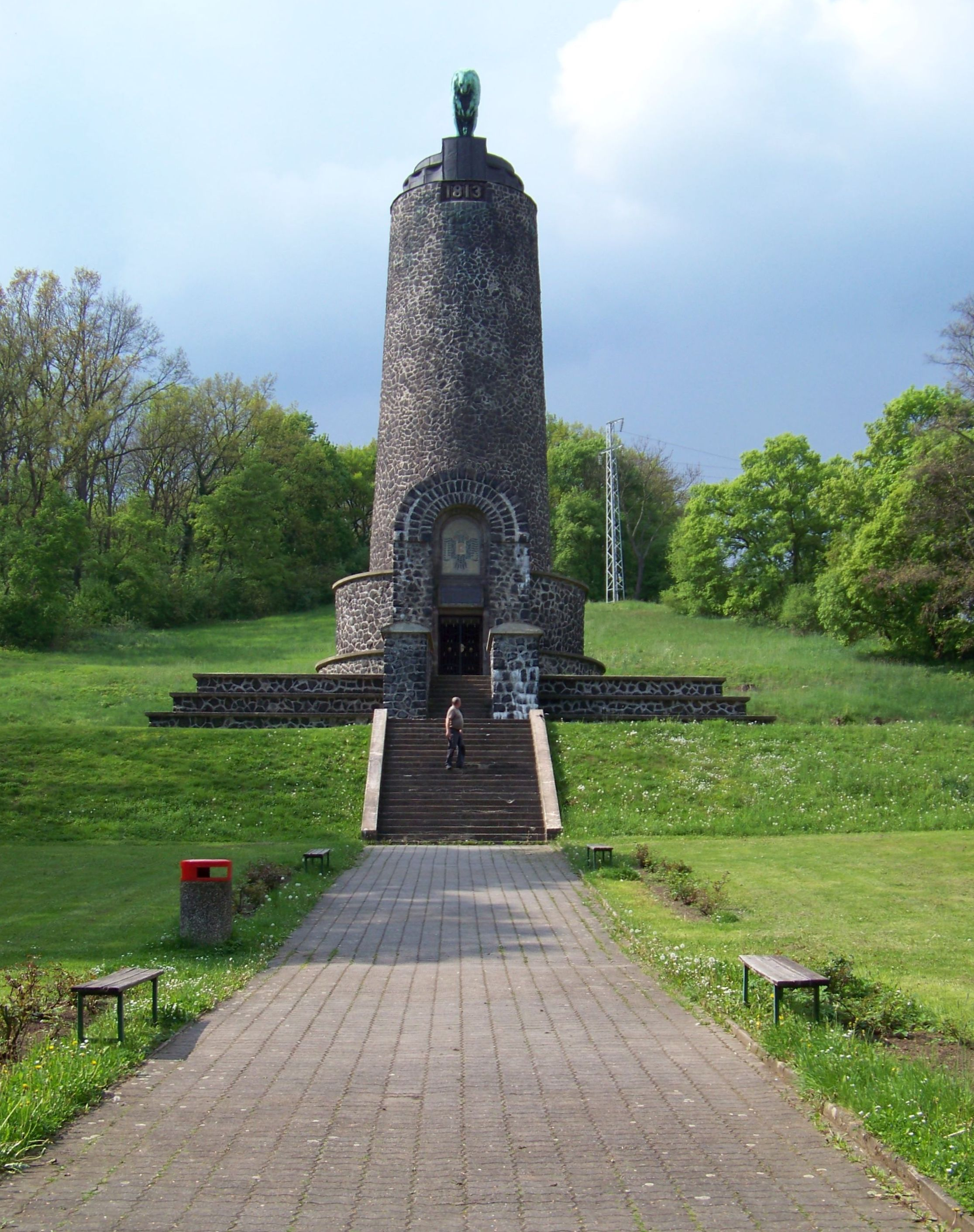 Chlumec, Ústí nad Labem District, Ústí nad Labem Region, Czech Republic. The Austrian monument to the 1813 Battle of Kulm.